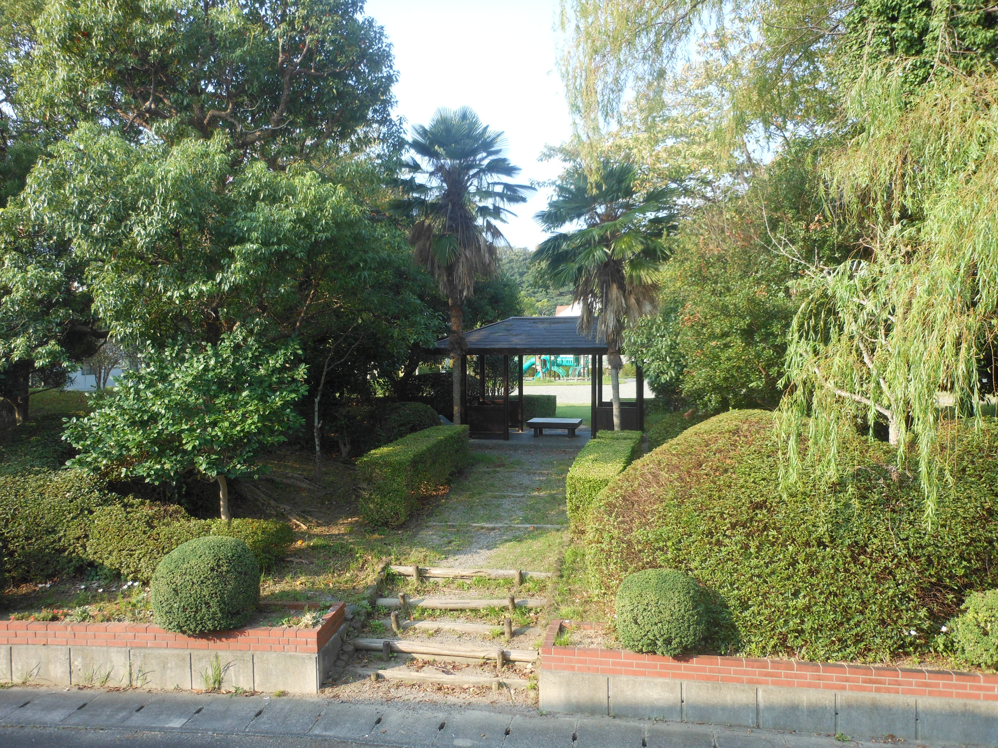 This is a park in front of Shima-Isobe station in Shima,Mie,Japan.